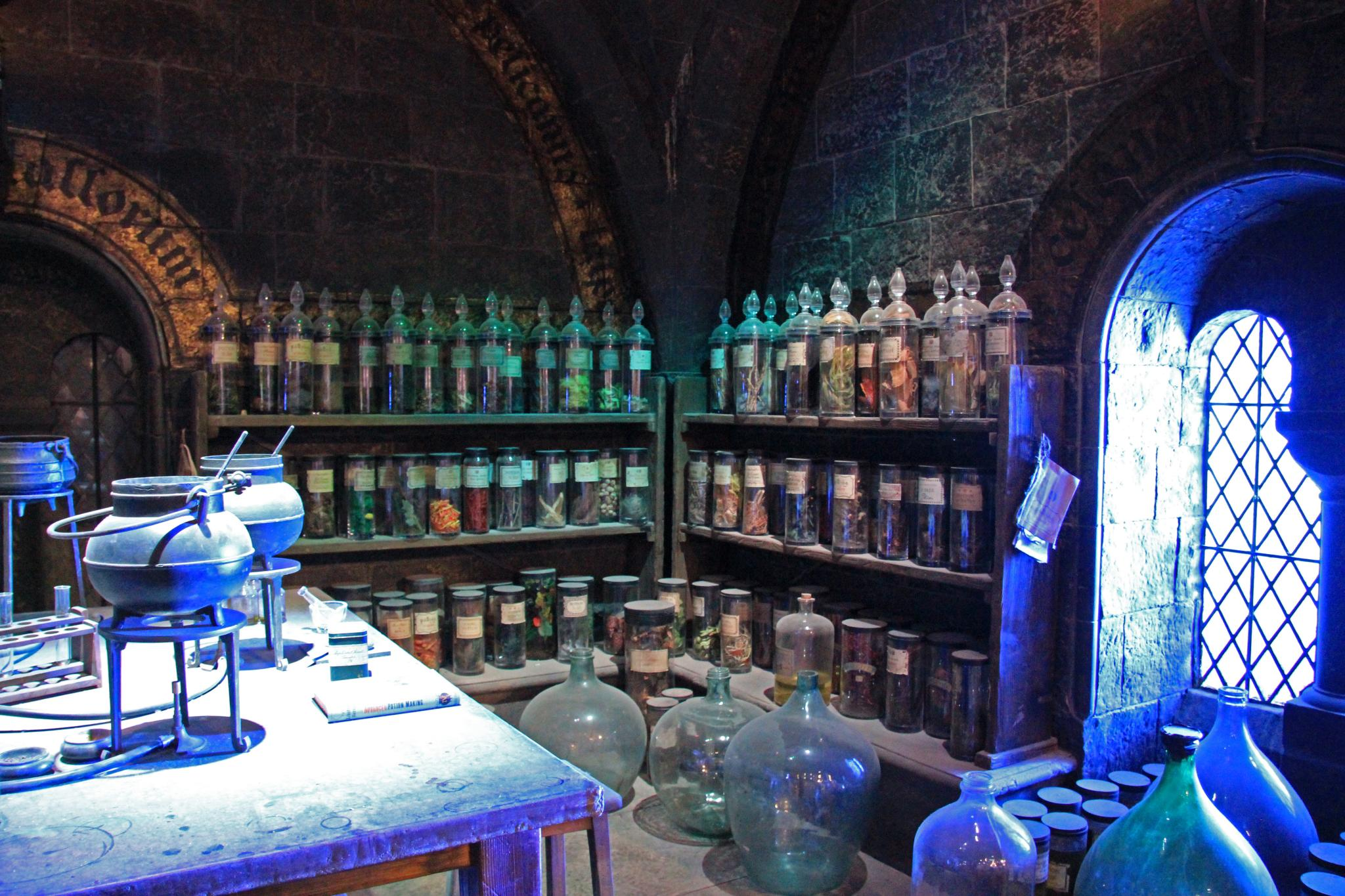 Warner Bros. Studio Tour London: The Making of Harry Potter.